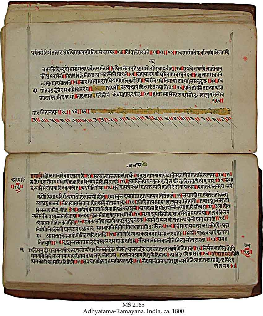 MS in Sanskrit on cream coloured paper, Rajasthan, India, ca. 1800, 256 ff. (complete), 17x32 cm, single column, (11x26 cm), 14-16 lines in Devanagari script, by several scribes, verse numbers highlighted in orange-red or with red strokes.